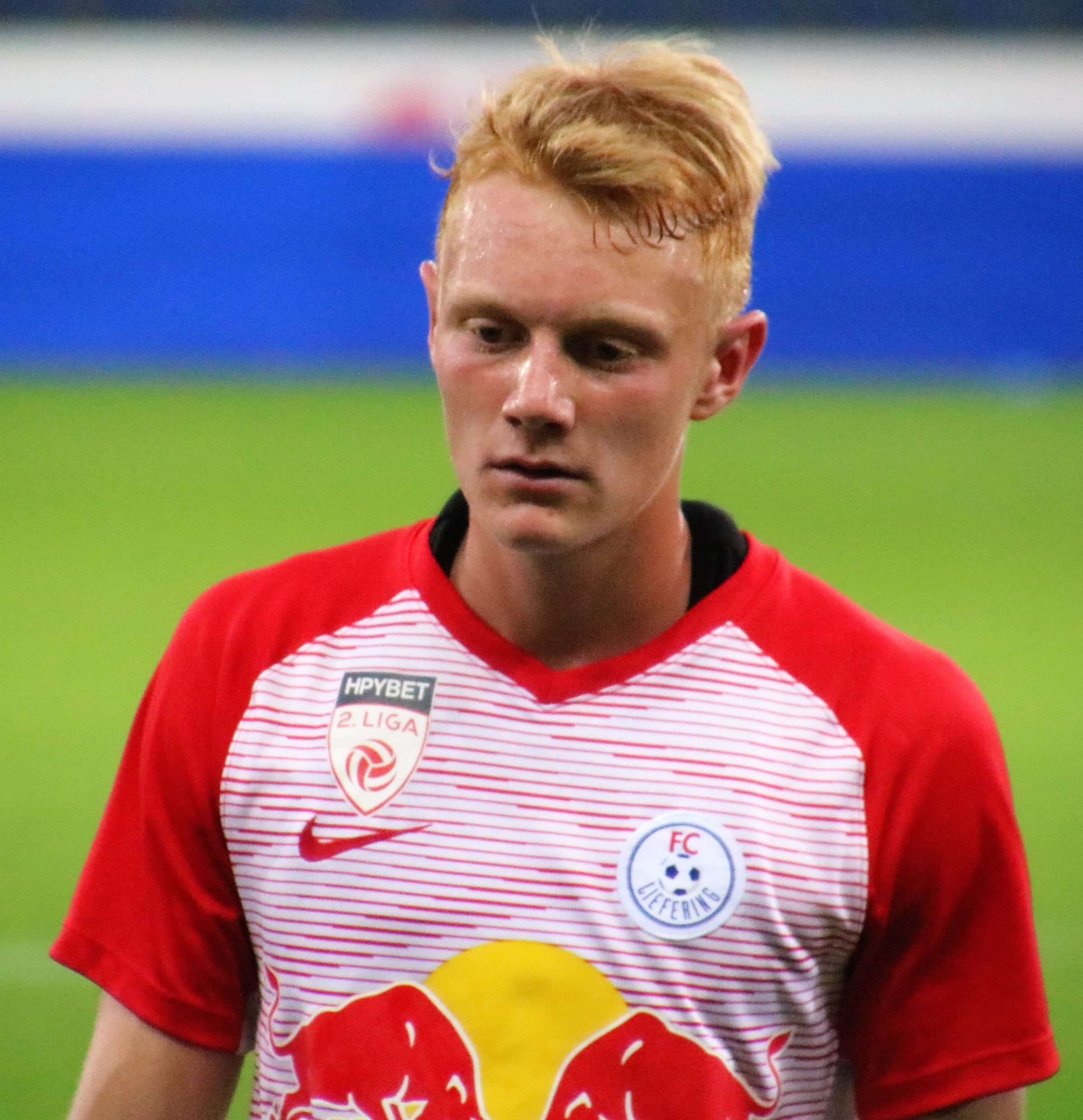 league match Austria 2nd league